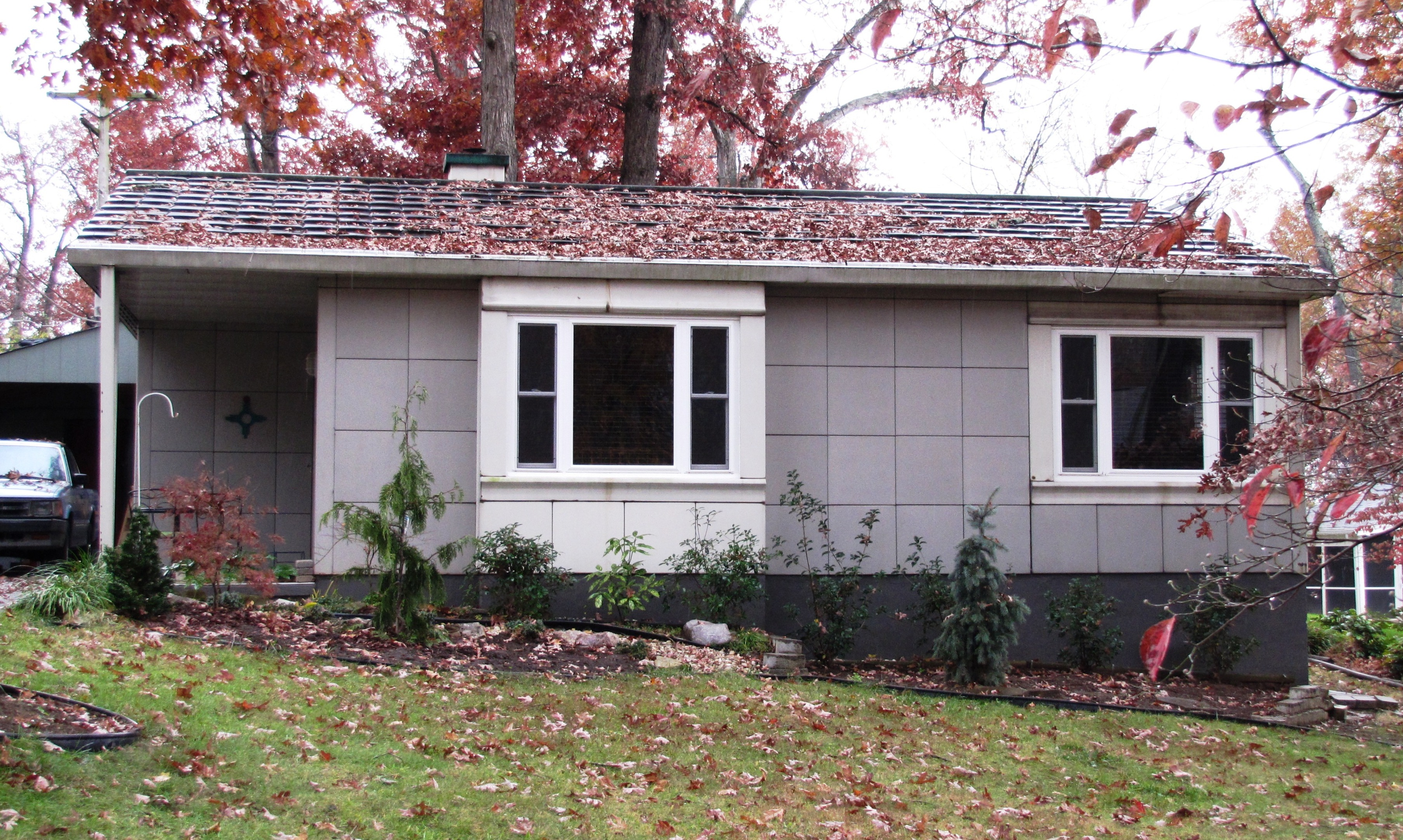 Lustron house at 222 Chamberlain Boulevard in the Lindbergh Forest neighborhood of Knoxville, Tennessee, USA. Built circa 1947, this house is now listed as a contributing property within the NRHP-listed Lindbergh Forest Historic District.